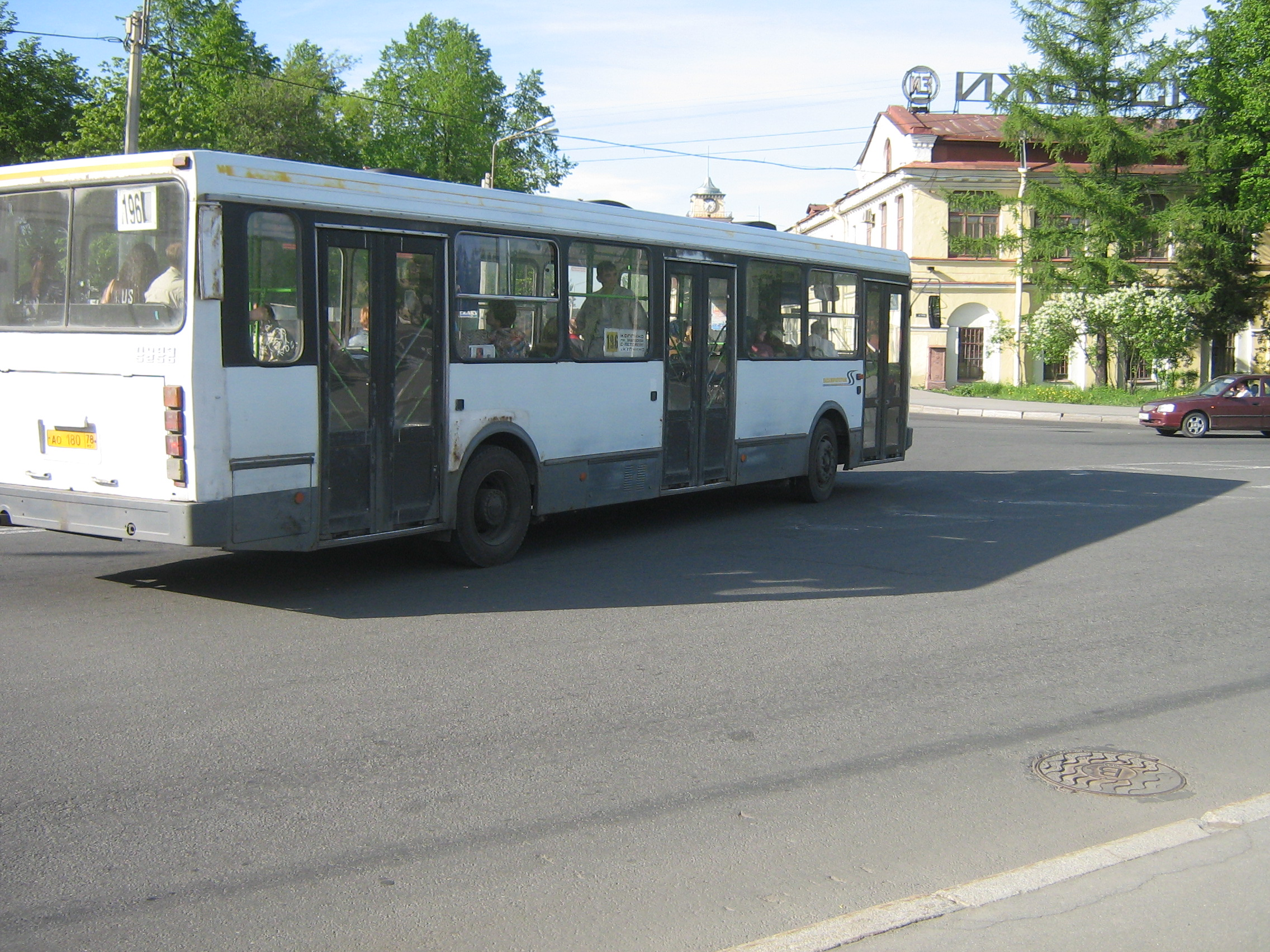 Kolpino (Russia)